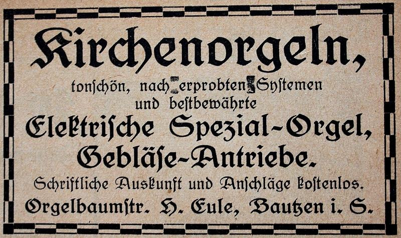 Advertisement of Organ Builder Hermann Eule, Bautzen